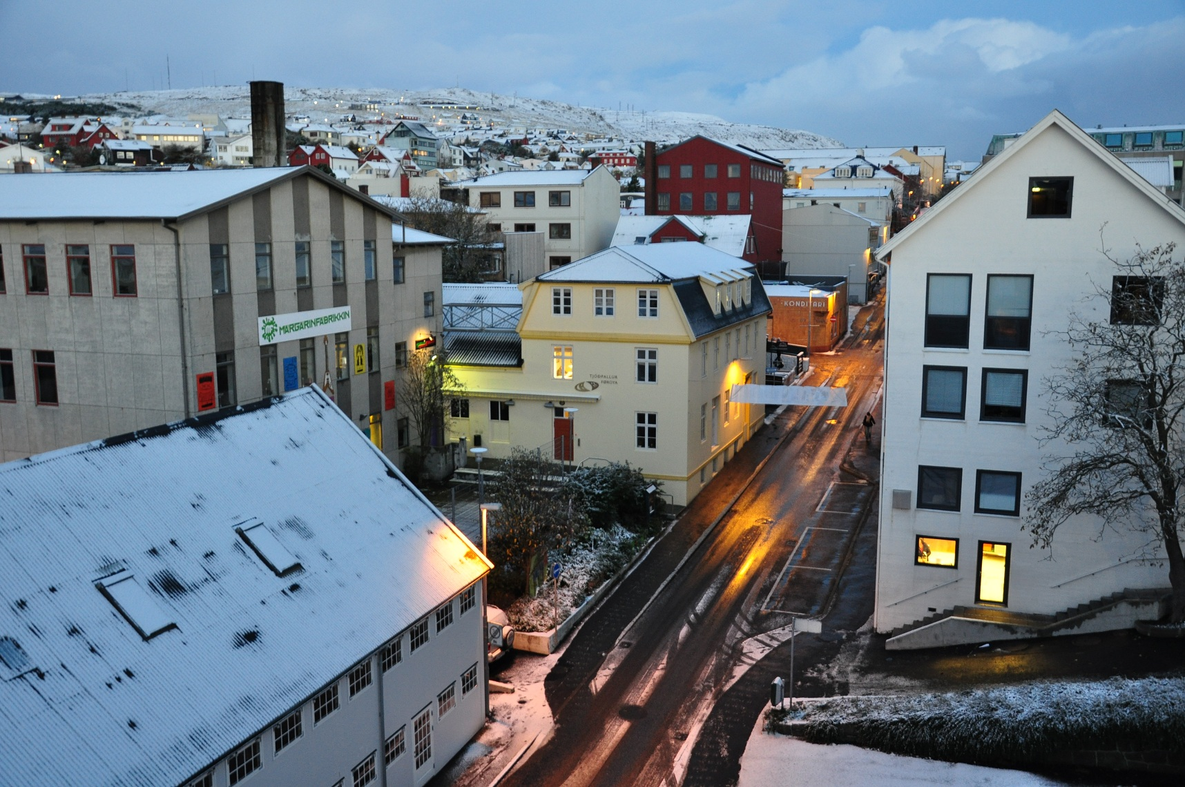 Tórsgøta on an early October morning, central Tórshavn, Faroe Islands.